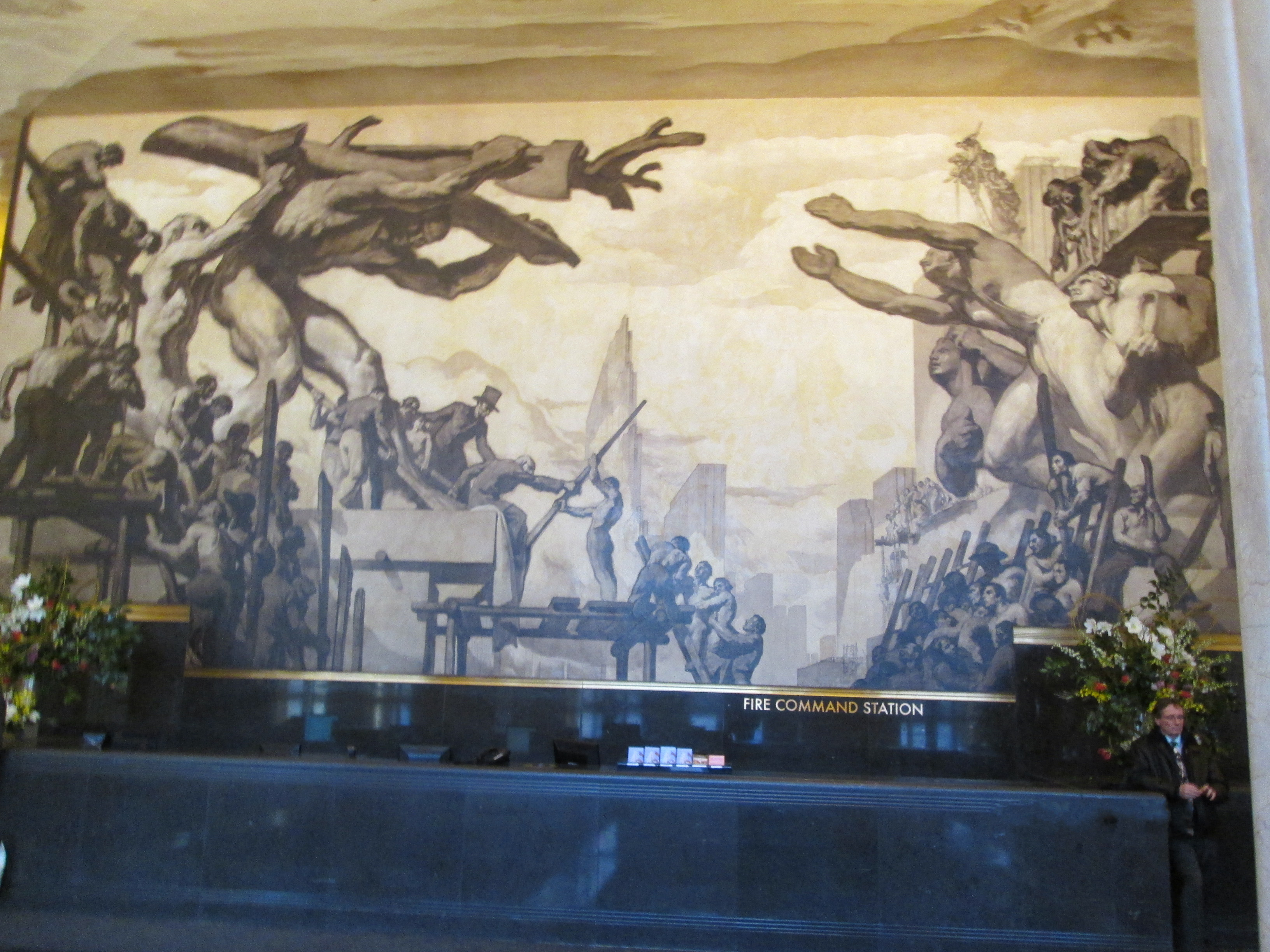 Part of American Progress, the lobby art in 30 Rockefeller Plaza, New York City